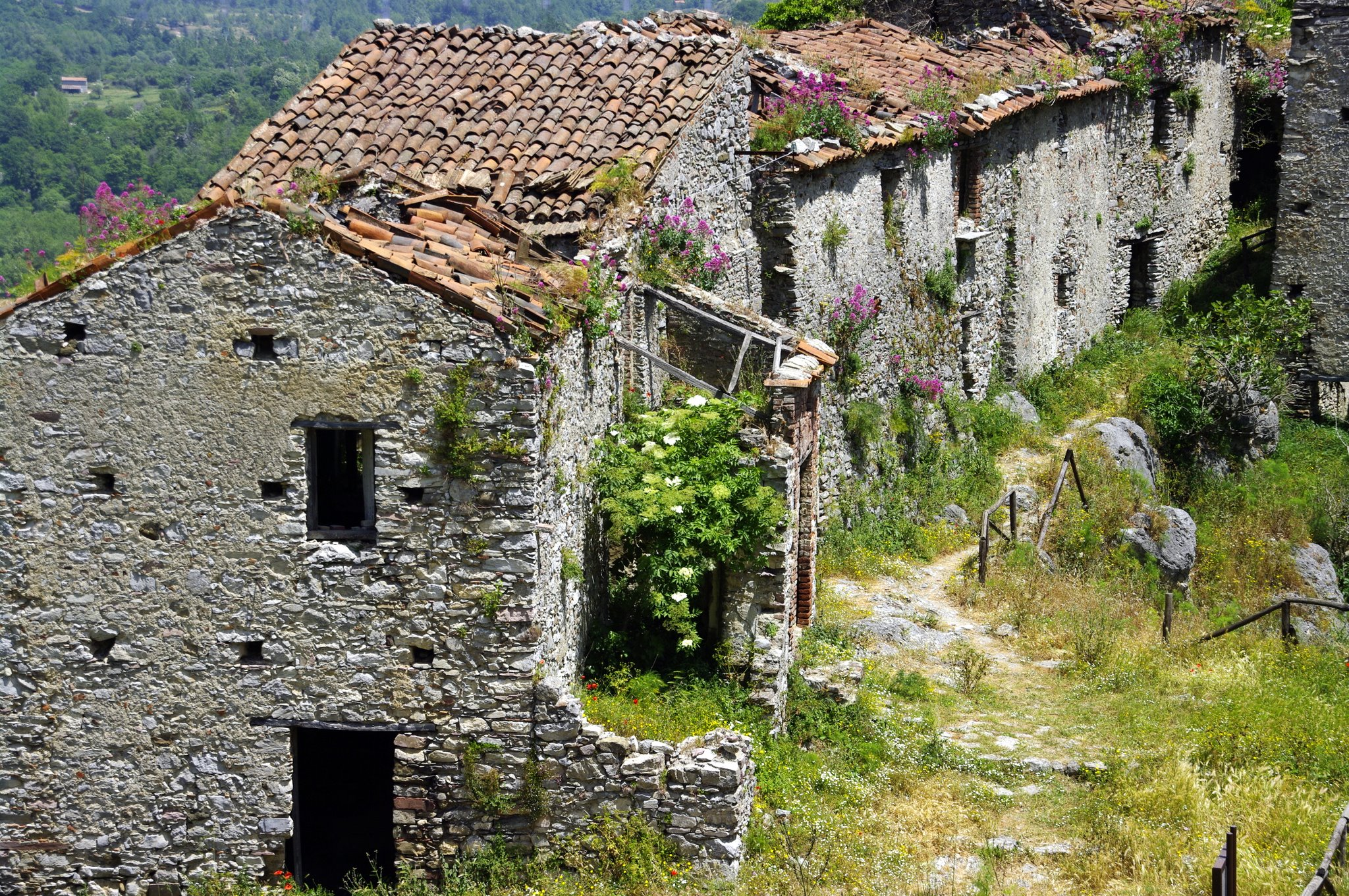 San Severino di Centola: Abandoned medieval town, Cilento area, south Italy